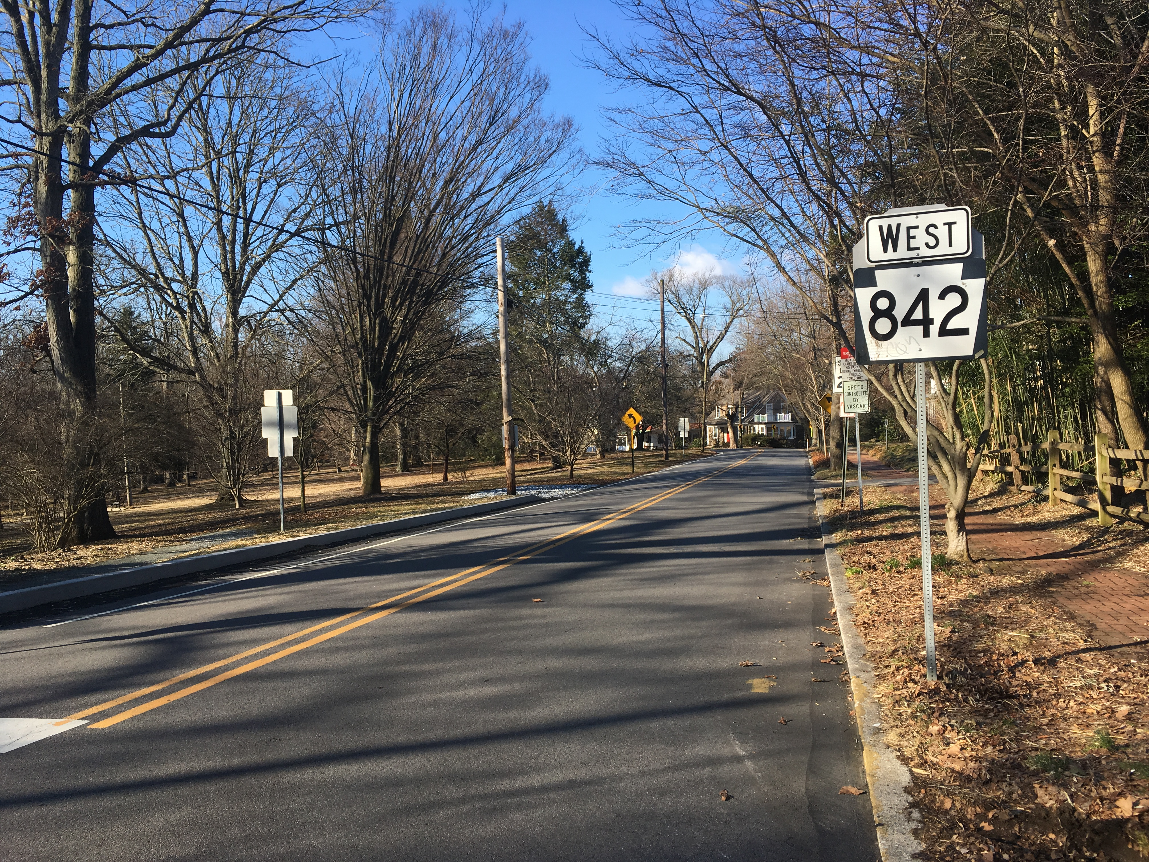 Westbound Pennsylvania Route 842 (Miner Street) past the intersection with Brandywine Street in West Chester, Pennsylvania